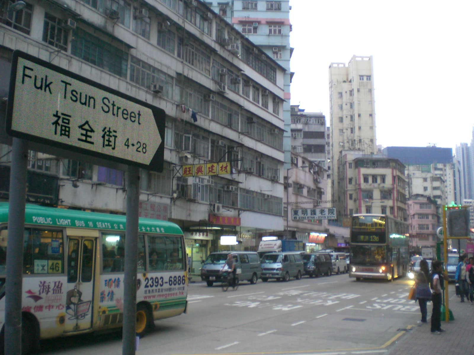 大角咀 福全街 黃昏